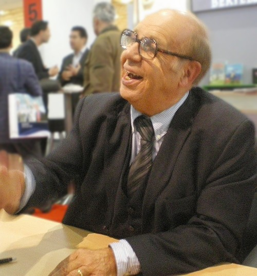 Jean Ziegler during International Frankfurt Book Fair 2009